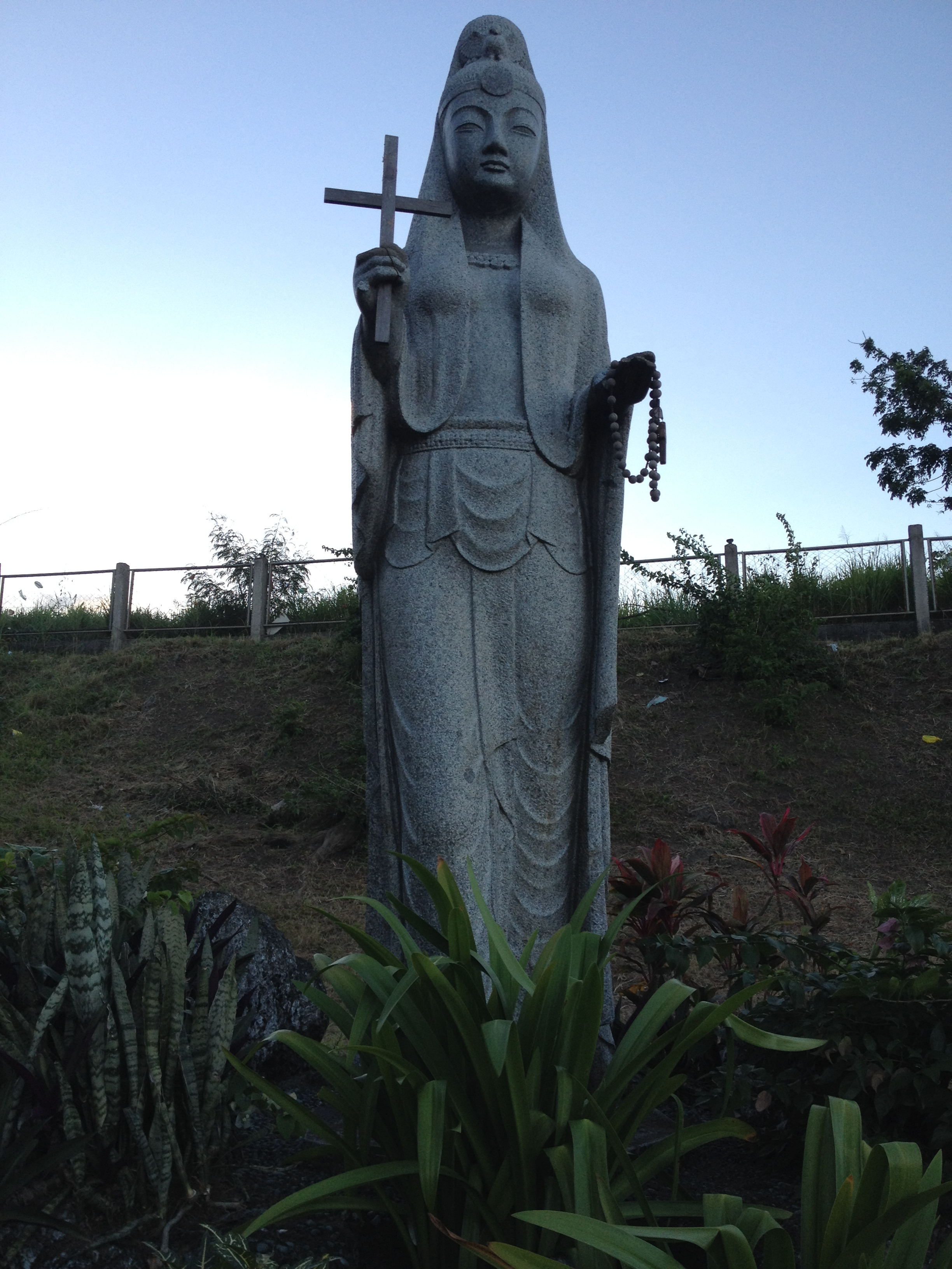 Madonna Maria Kanon, it is a peace commemoration statue in the Kanfuraw Hill, Tacloban on Asia and Pacific theatre of World War II.